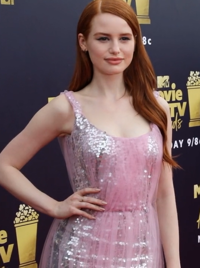 Madelaine Petsch at 2018 MTV Movie & TV Awards Red Carpet